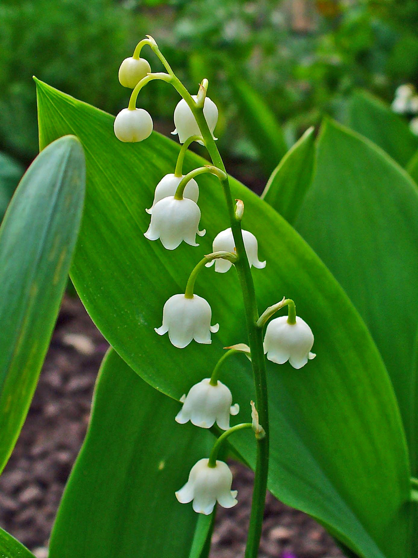 Convallaria majalis, Ruscaceae, Lily of the Valley, inflorescence; Karlsruhe, Germany. The fresh aerial parts of the blooming plant are used in homeopathy as remedy: Convallaria majalis (Conv.)